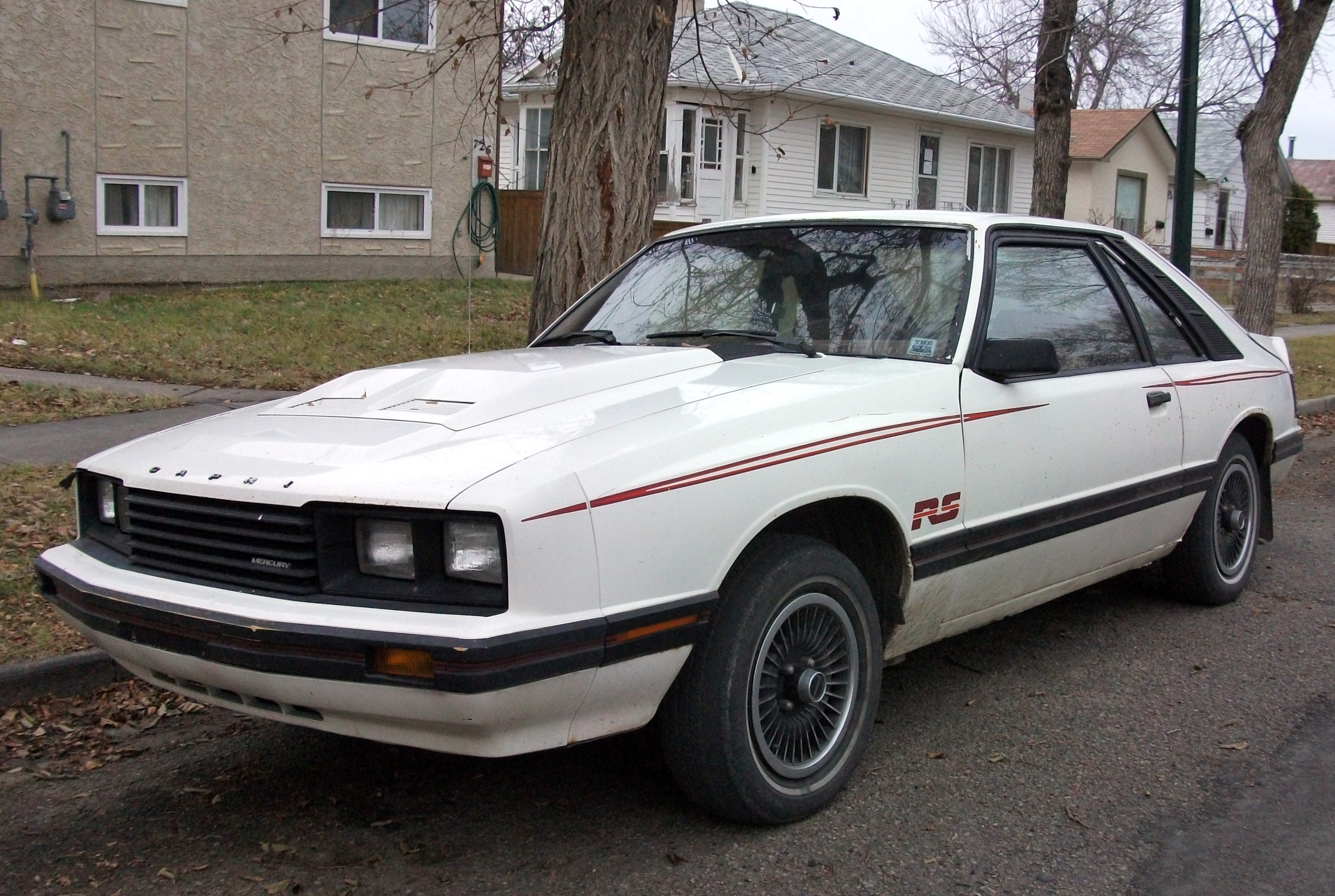 Not many of these Mercury Capri RS left around - certainly not in this nice, stock condition.